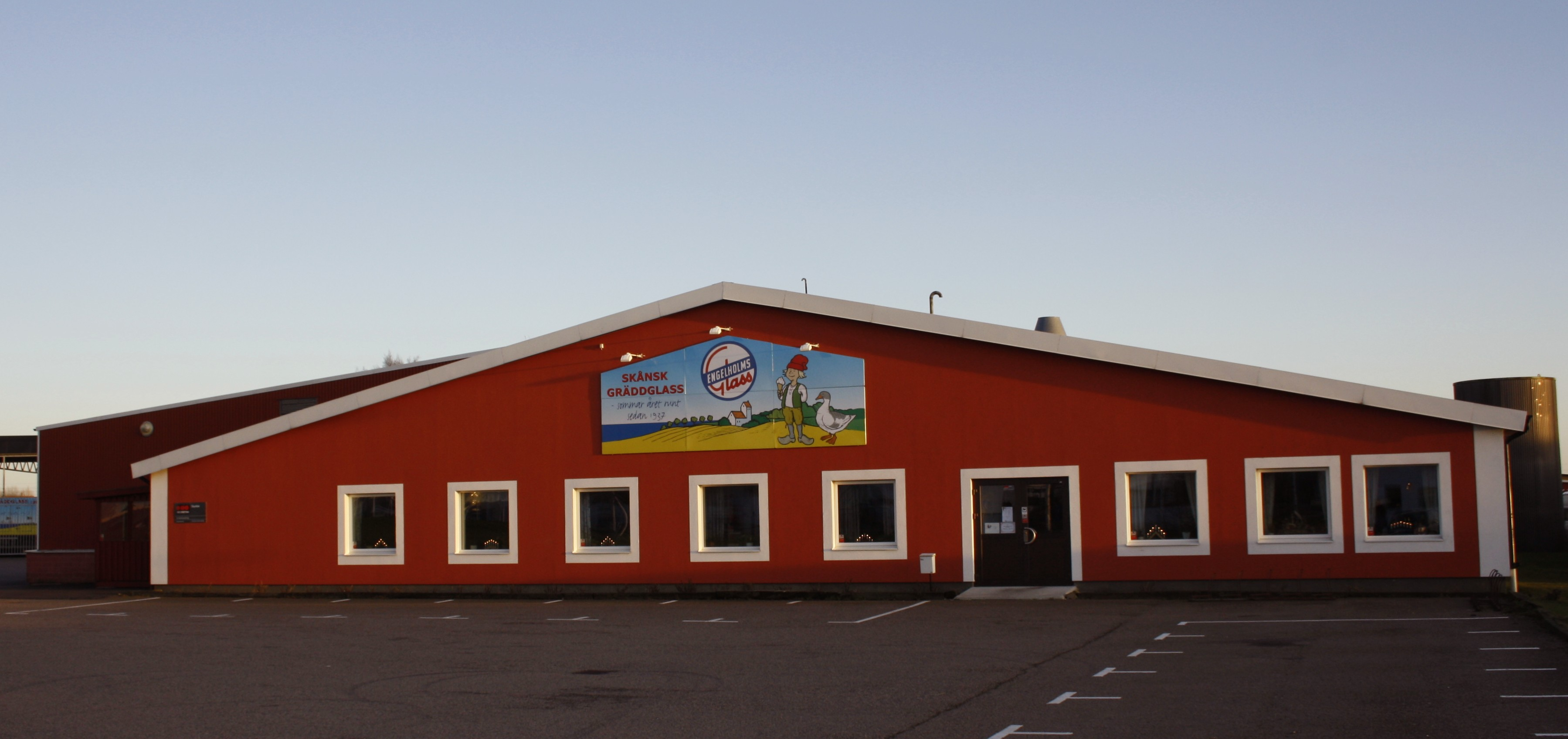 Engelholmsglass, Ängelholm, Skåne, Sweden